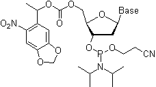 Photolabile amd